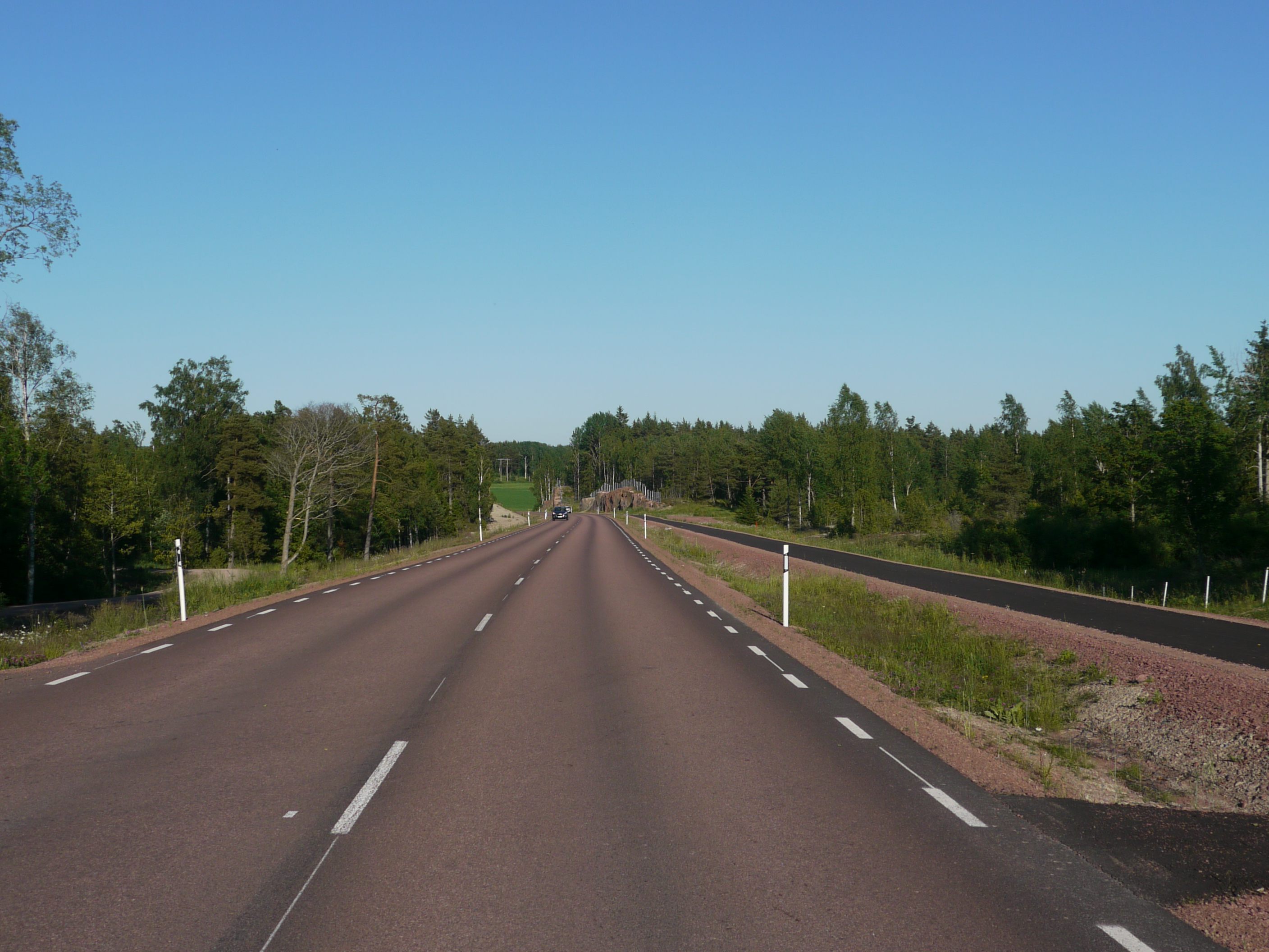 Road 40 in Åland, Finland. It has a separate cycle lane